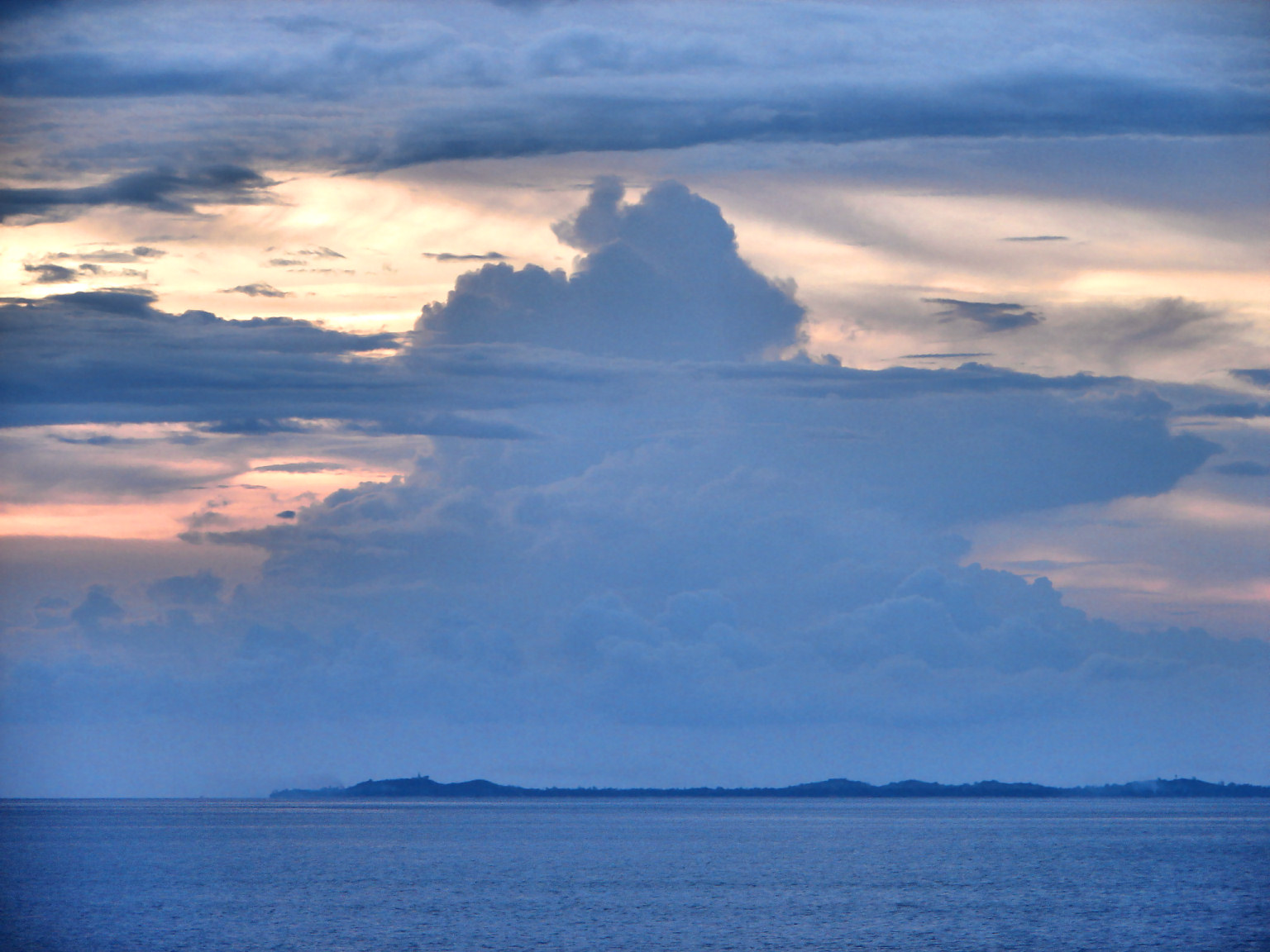 Jintotolo Island as seen from the south-east, Masbate Province, the Philippines